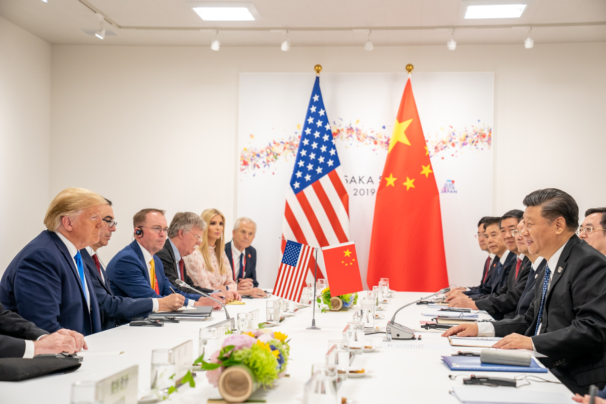 President Donald J. Trump joins Xi Jinping, President of the People’s Republic of China, at their bilateral meeting Saturday, June 29, 2019, at the G20 Japan Summit in Osaka, Japan. (Official White House Photo by Shealah Craighead)